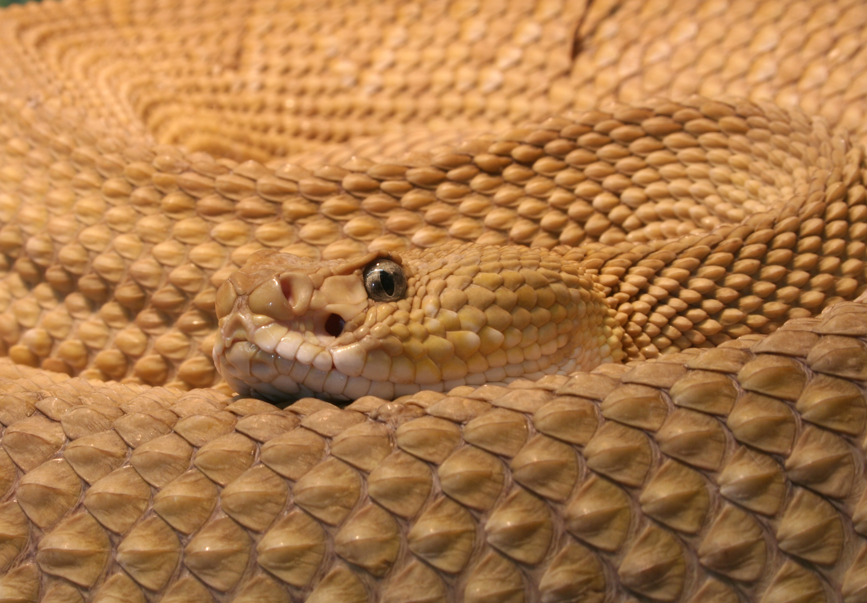 Mexican west coast rattlesnake, Mexican green rattler, Crotalus basiliscus, Genus: Crotalus, Family: Viperidae